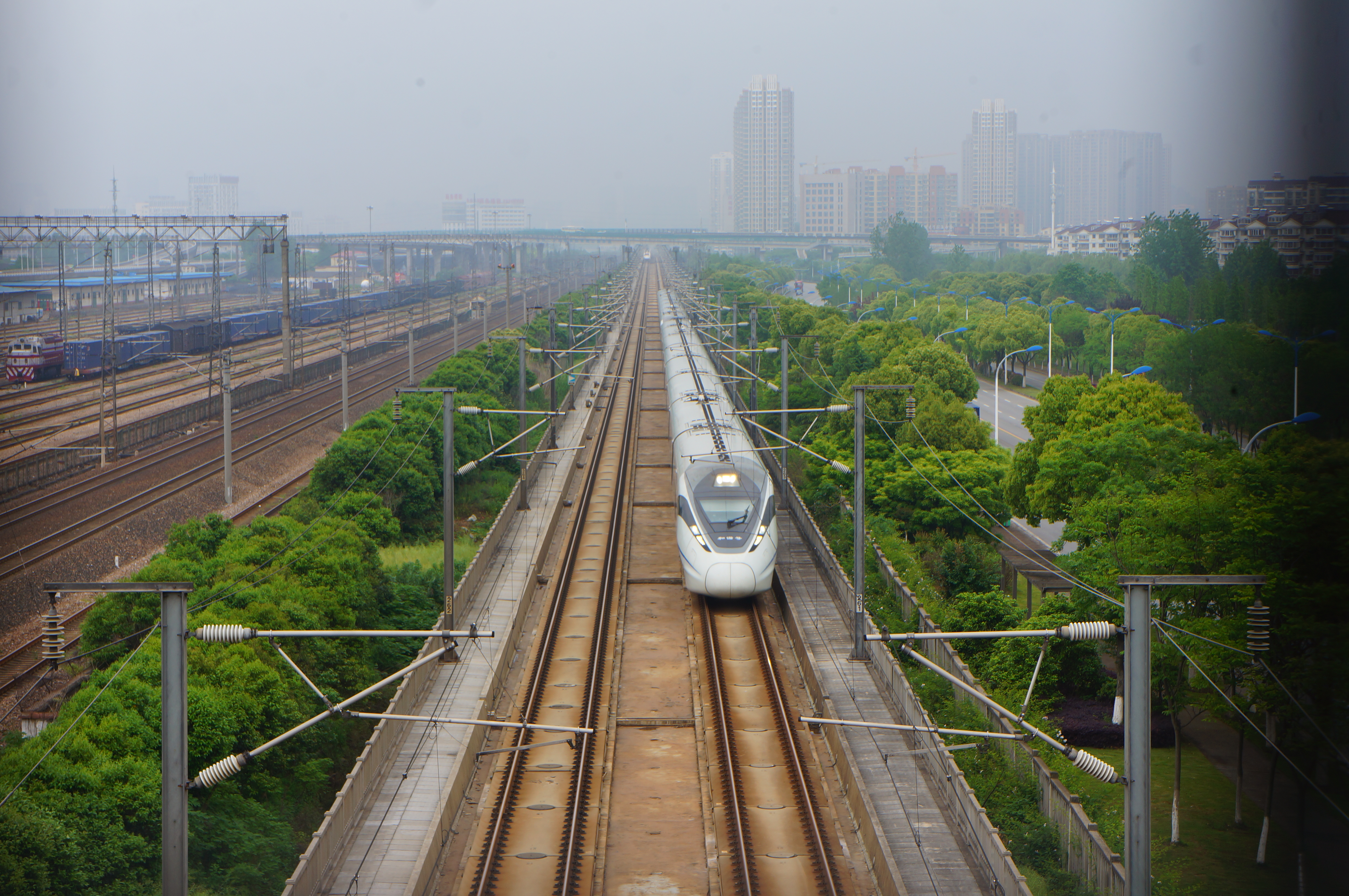 201705 G7009 runs under Xinguang Road Bridge. It only costs 3 mins from WXI to WXN by HSR.